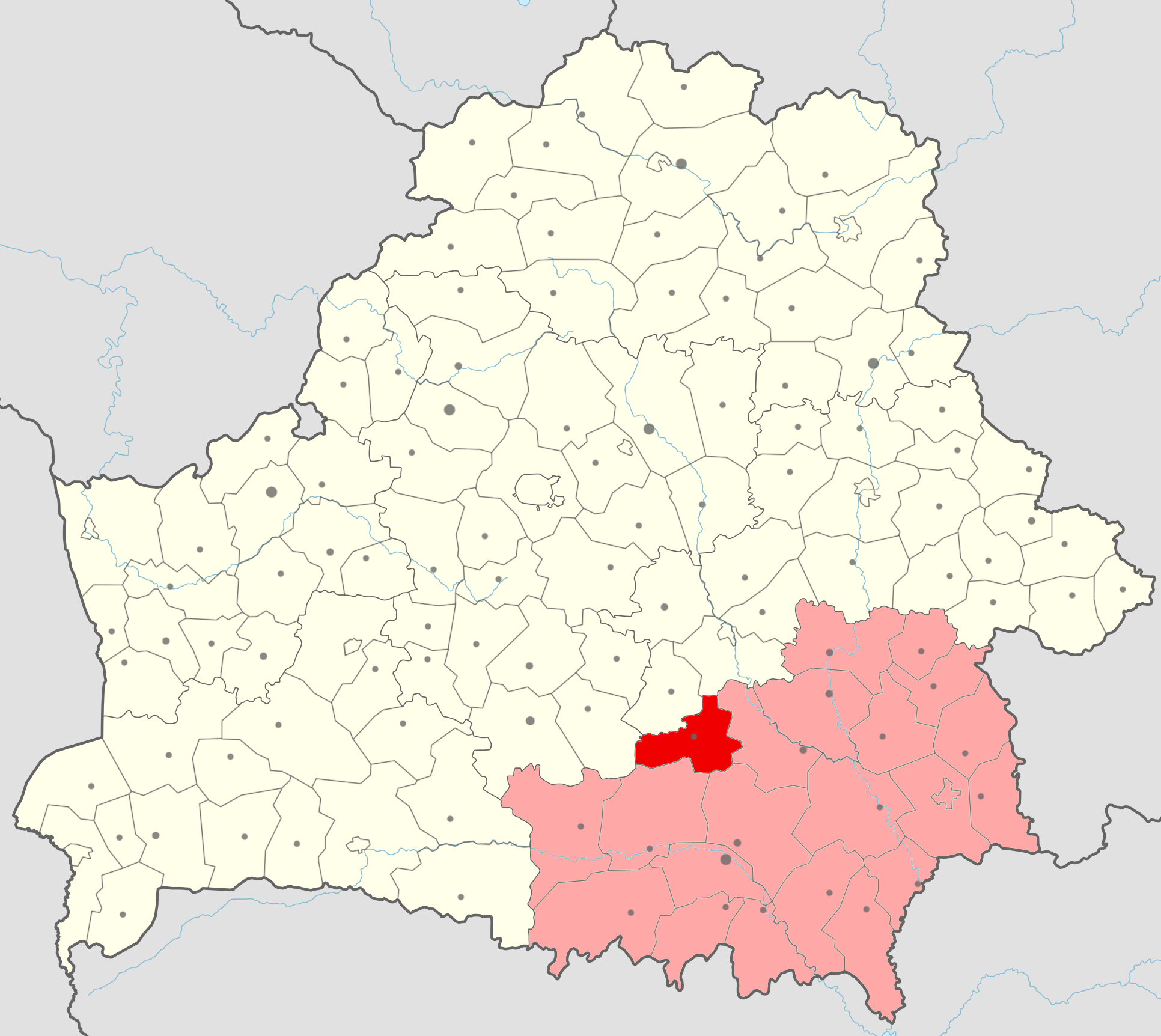 Location of Akciabrski rajon (red) in Homieĺskaja voblasć (light red) in Belarus.